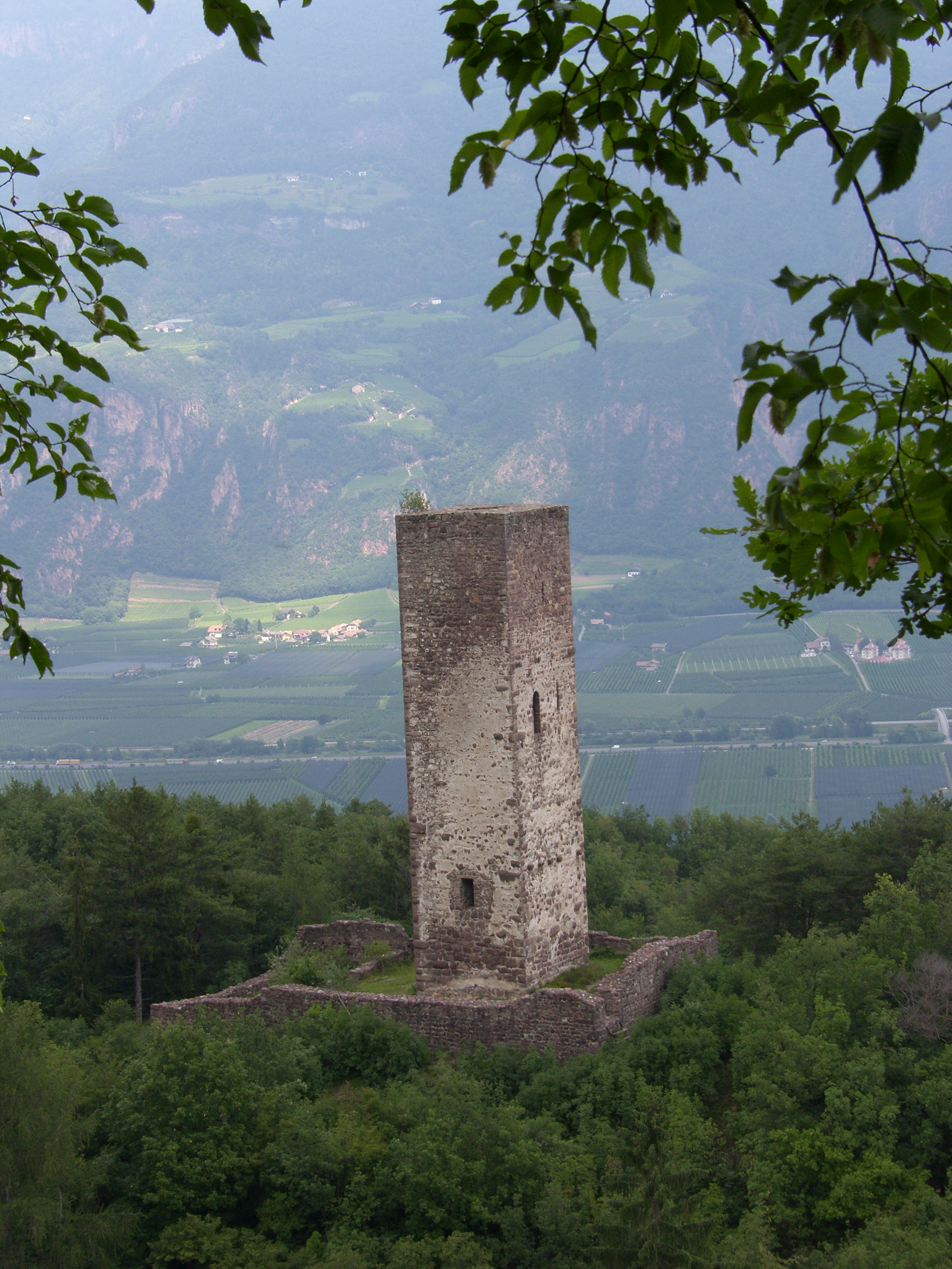 Castle Hocheppan, tower 'Kreidenturm', South Tyrol